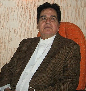 I took this picture when he paid a visit last year (2006) to the company I was working for. It is a rare picture as it is extremely difficult to get his latest pictures.